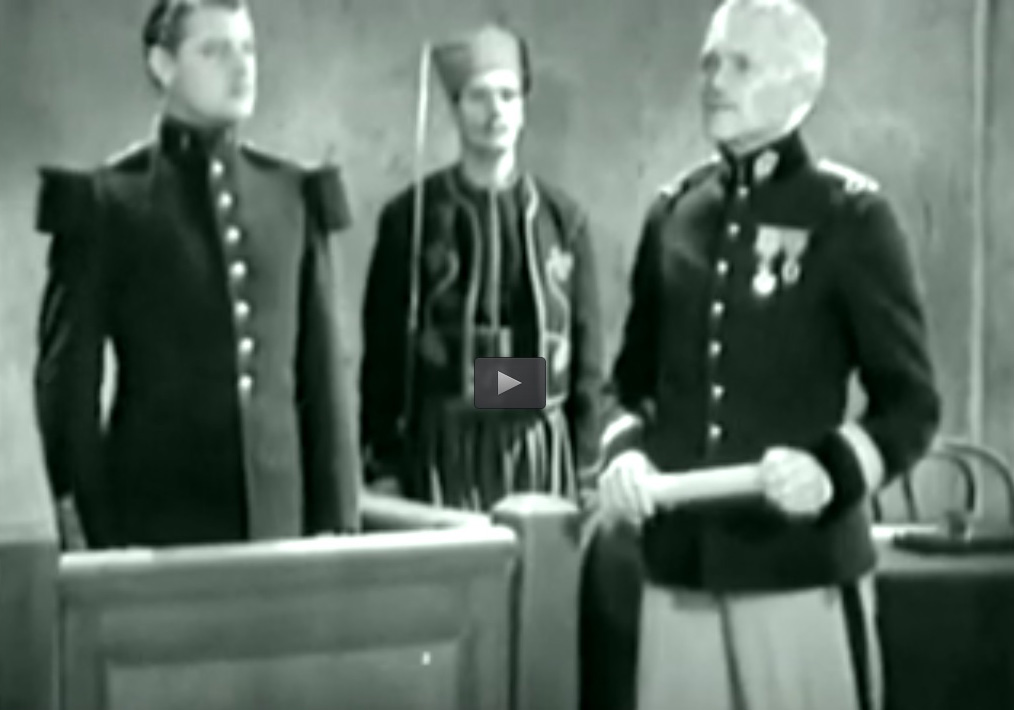 Screen shot showing Joseph De Stefani in the 1931 film, Beau Ideal